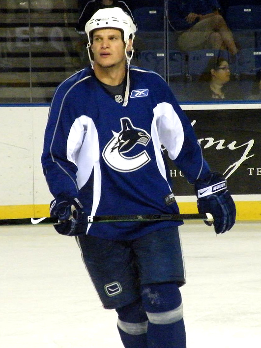 Vancouver Canucks defenceman Kevin Bieksa during a team practice.